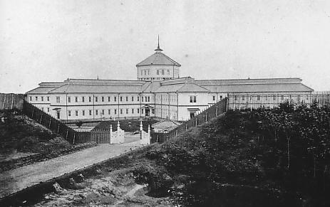 Miyagi Shujikan(Prison)